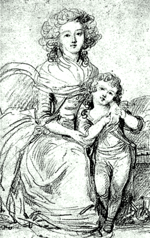 Portrait of Madame de Tourzel and the Dauphin.